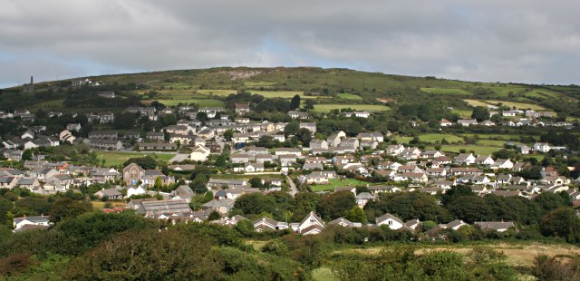 A view of the village of Lanner near Redruth, Cornwall, UK, with Carn Marth hill beyond.